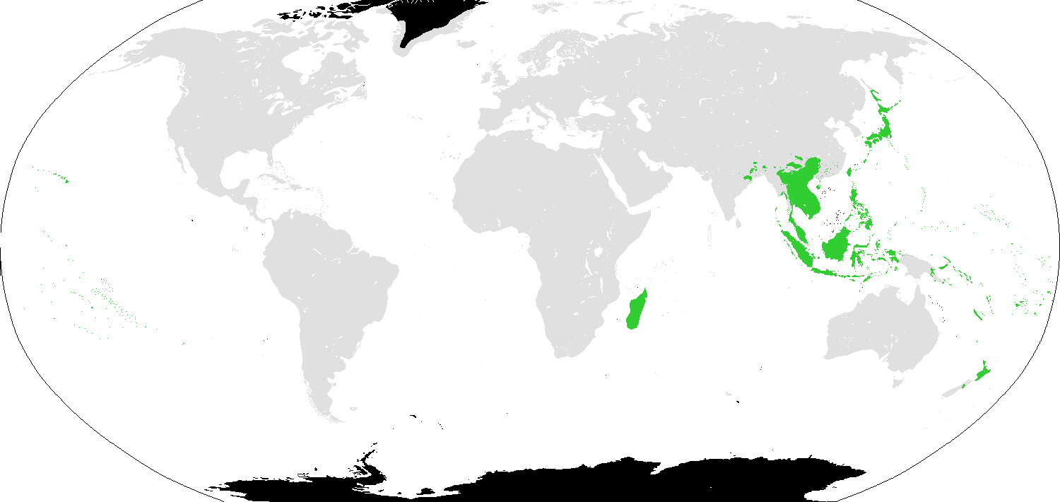 Map of the Austric languages